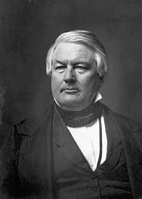 Millard Fillmore. 13th President of the United States (1850-1853)